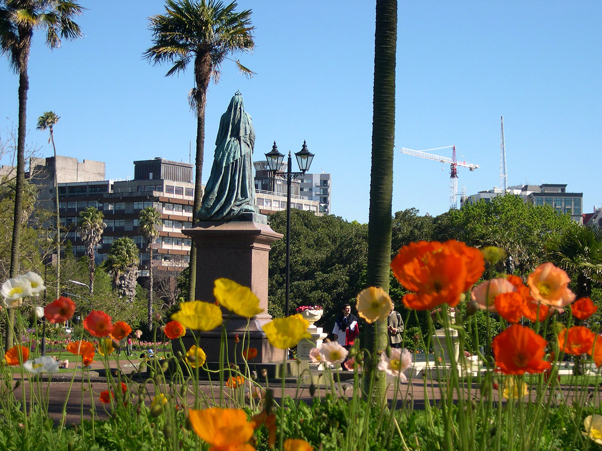 The Victoria Statue in Albert Park, Auckland, New Zealand